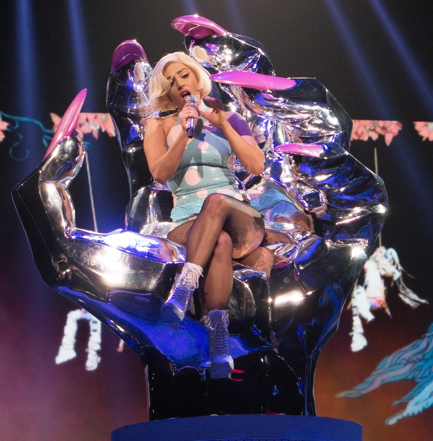 Lady Gaga performing "Do What U Want" at the Artrave: The Artpop Ball.